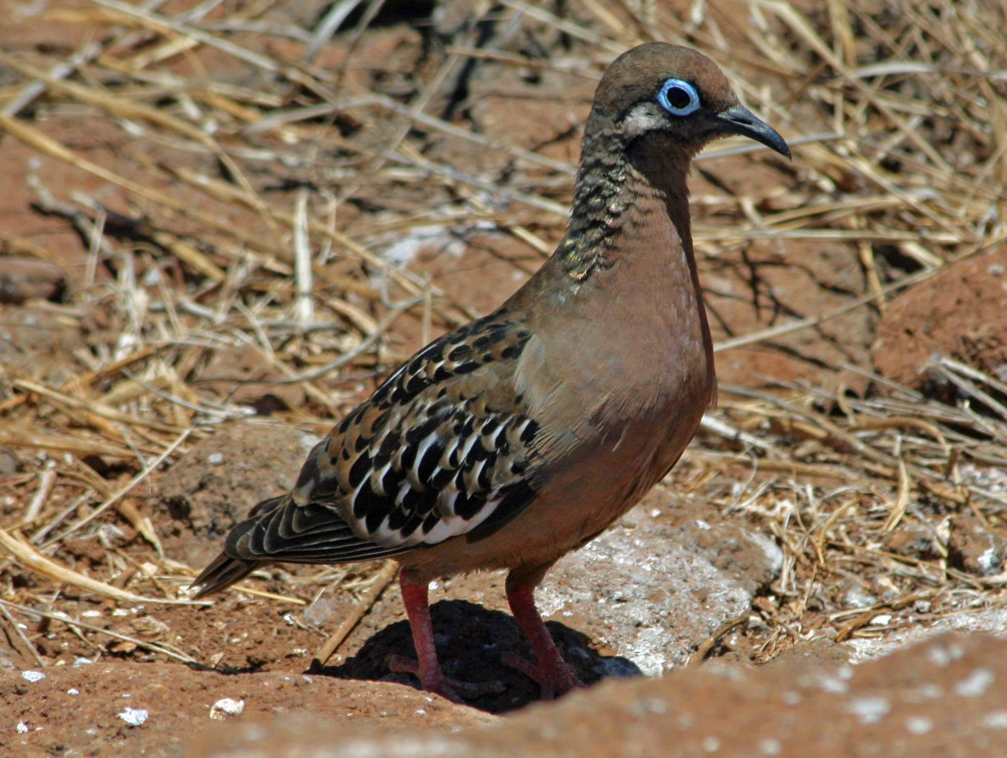 Galapagos Dove (Zenaida galapagoensis) - Galapagos Islands